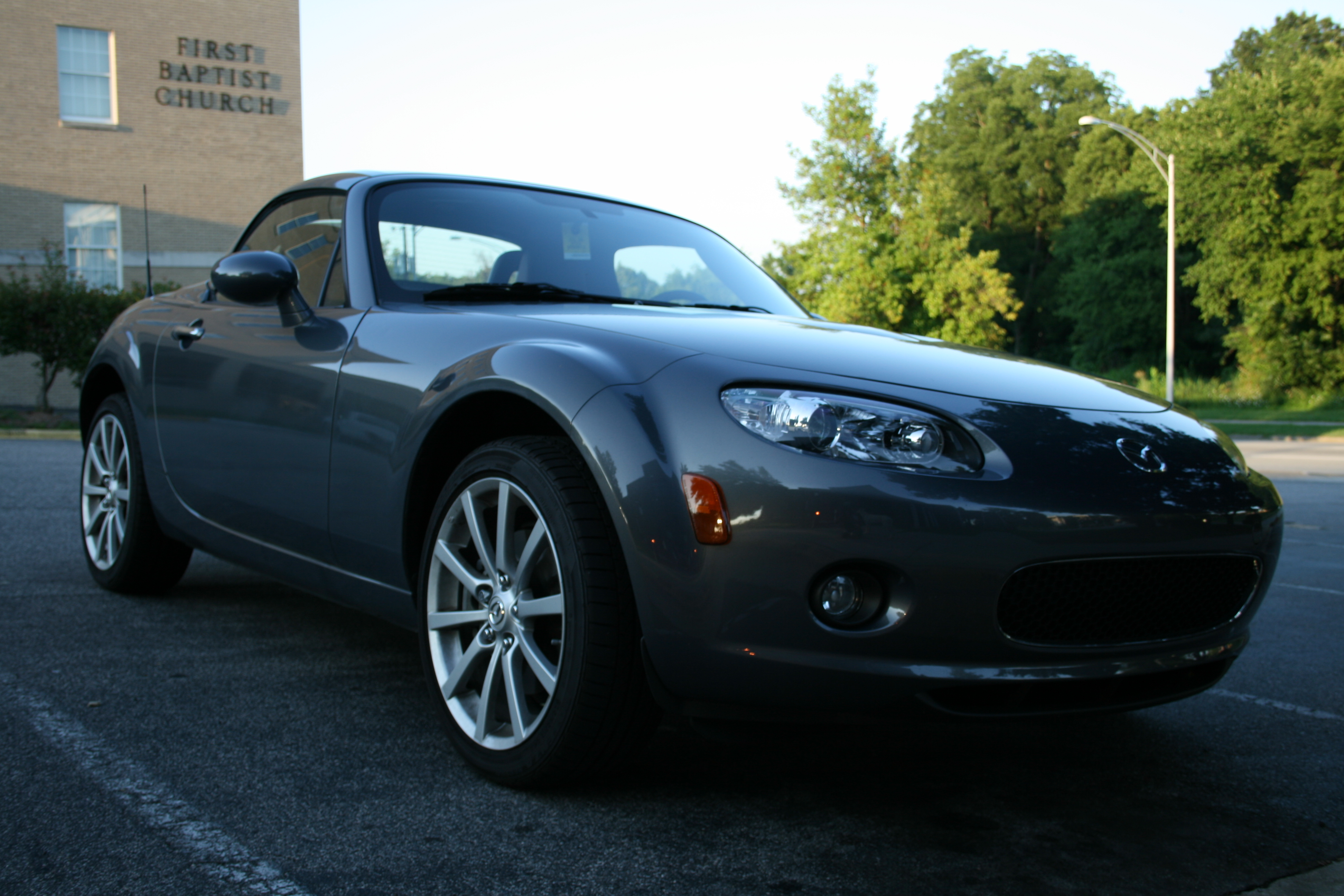 Third generation Mazda Miata in Durham, North Carolina at dusk.